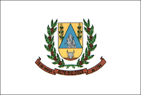 Flags of the city of Alto Rio Doce, Minas Gerais, Brazil.